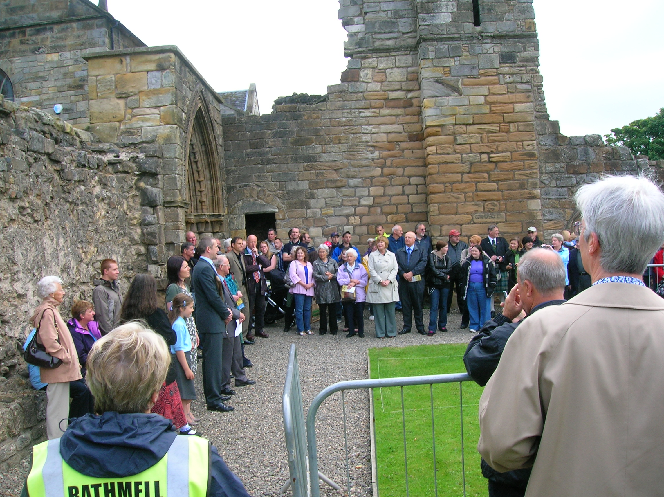 Celebratory launch of archaeological dig at Kilwinning Abbey, North Ayrshire, Scotland